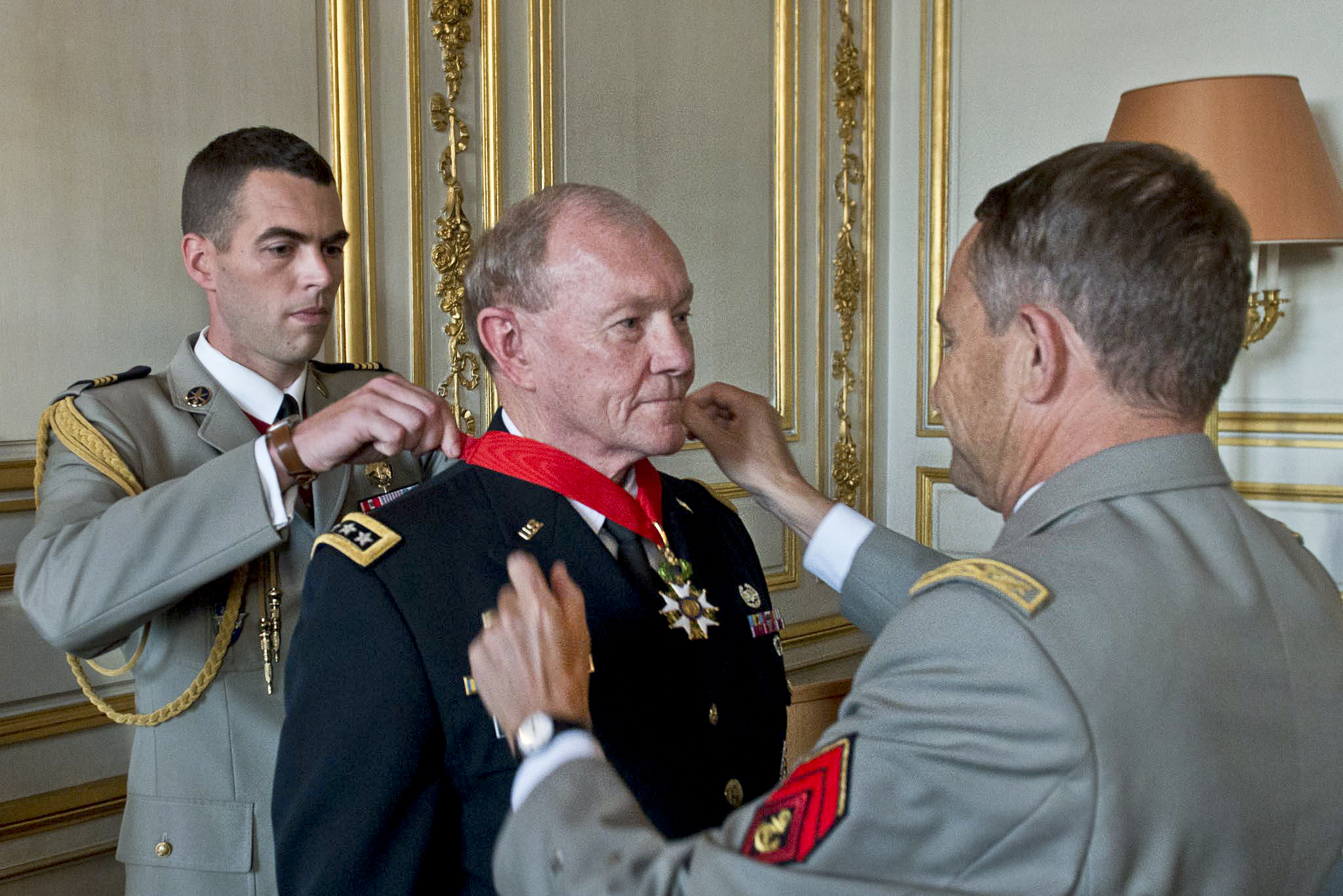 French Army Gen. Pierre de Villiers, foreground, chief of defense staff, helps place the French Legion of Honor medal on U.S. Army Gen. Martin E. Dempsey, center, chairman of the Joint Chiefs of Staff, in Paris, Sept. 18, 2014. The medal, established by Napoleon Bonaparte in1802, is the highest decoration in France.